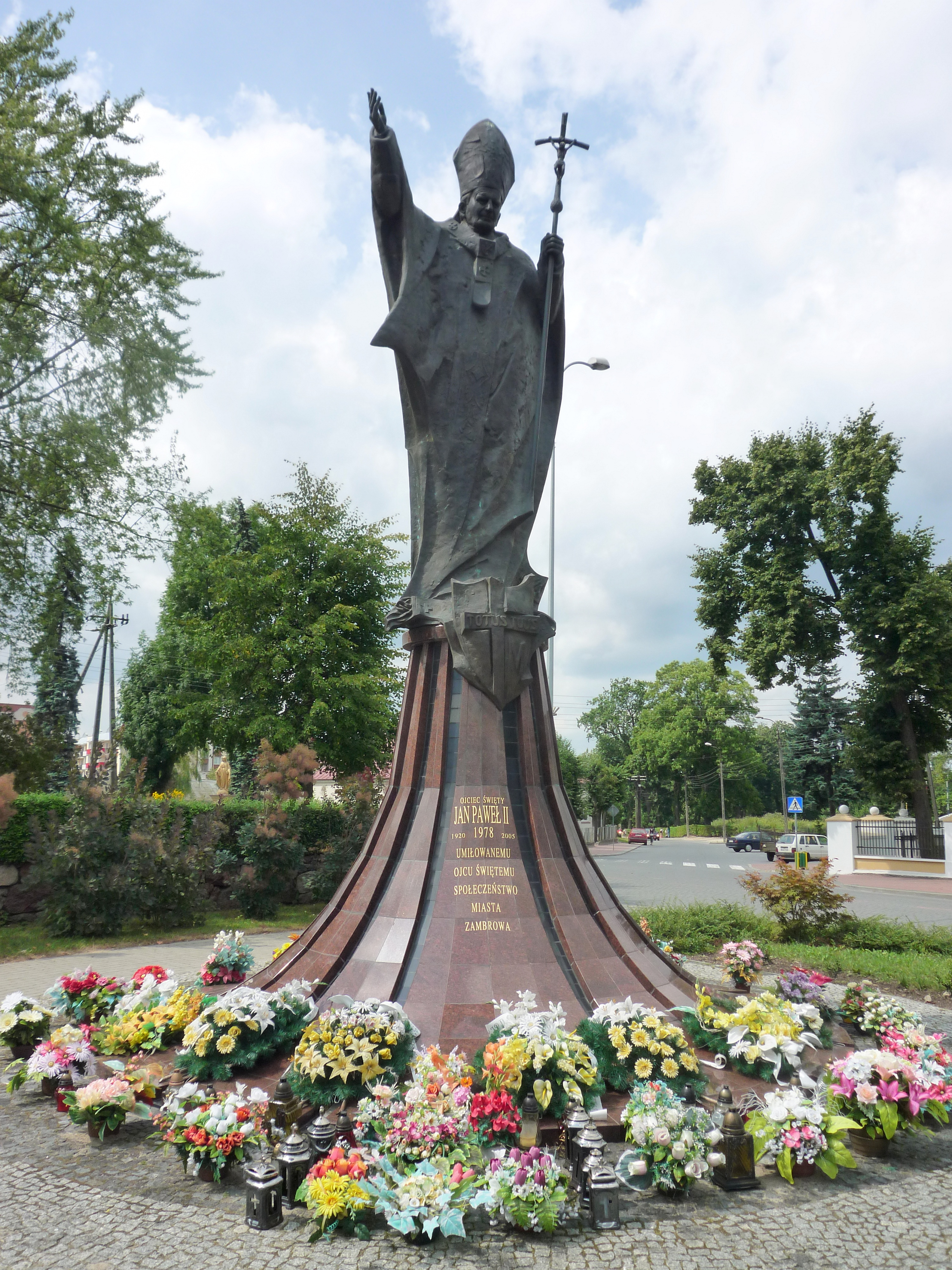 Zambrów - the monument of John Paul II on the square in the front of the parish church of the Holy Trinity